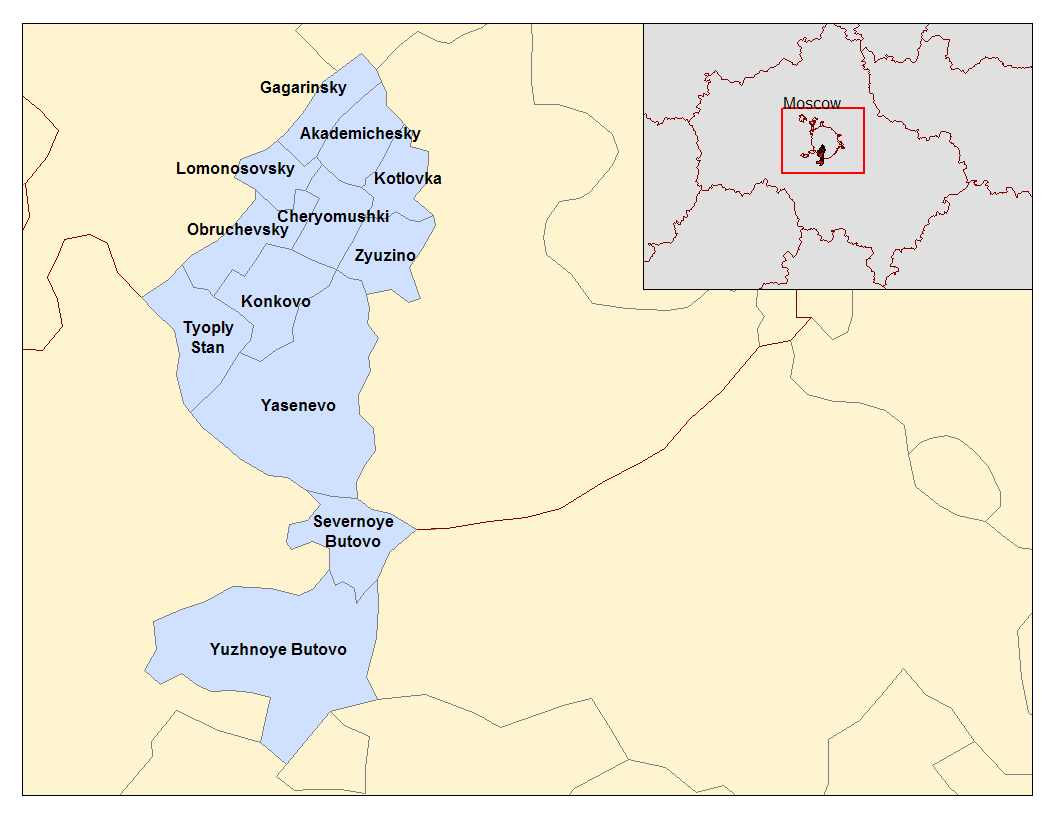 Map of the districts of the South Western Administrative Okrug of the Federal City of Moscow. Created by Rarelibra 20:51, 3 April 2007 (UTC) for public domain use, using MapInfo Professional v8.5 and various mapping resources.